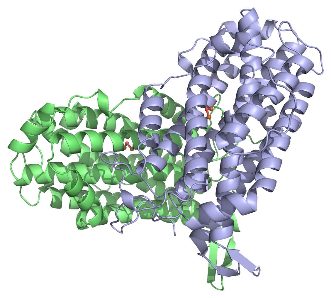 R2-subunit of the ribonucleotide reductase from E. coli